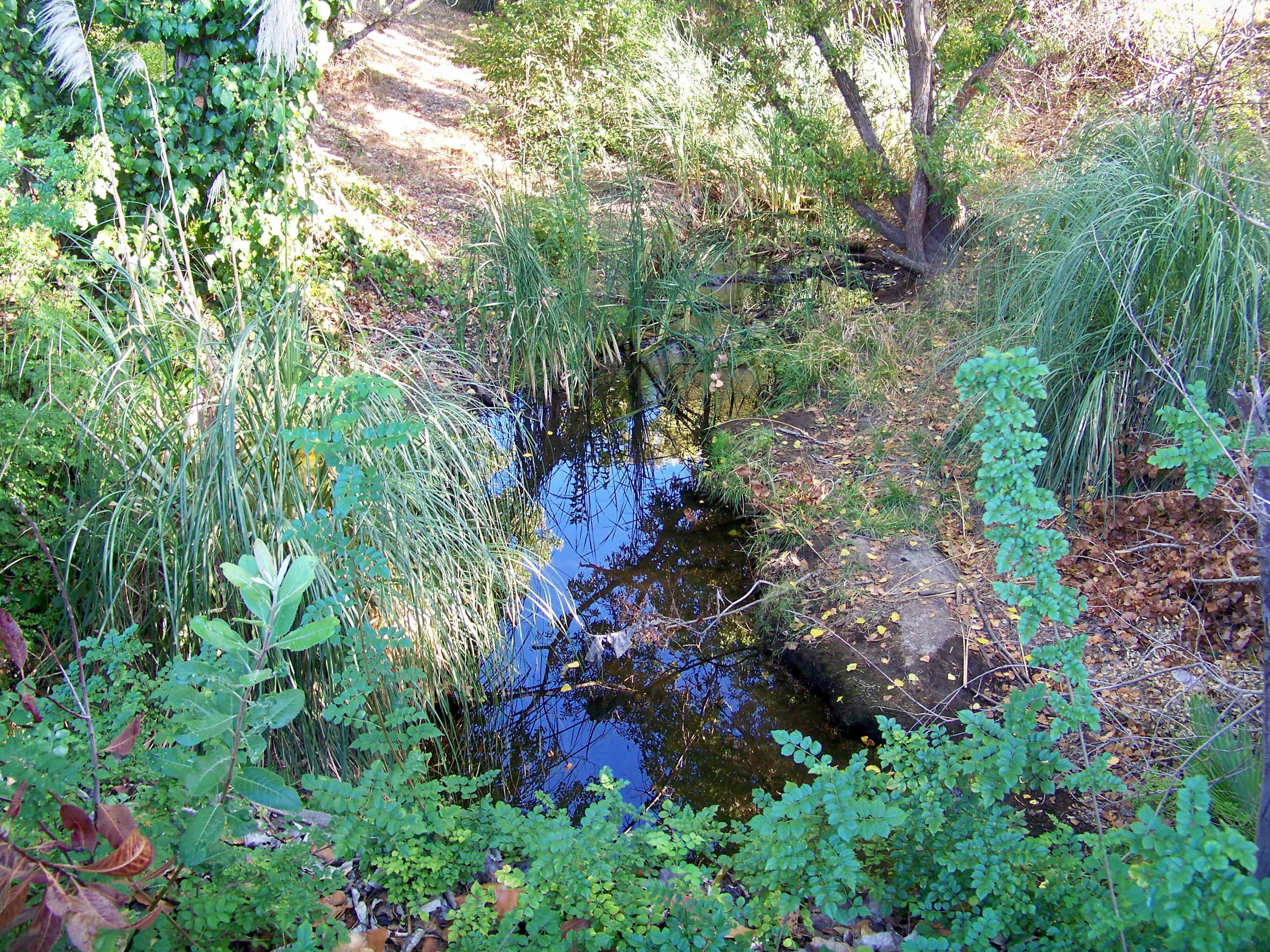 Refugio Creek by Creekside Center in Hercules, California